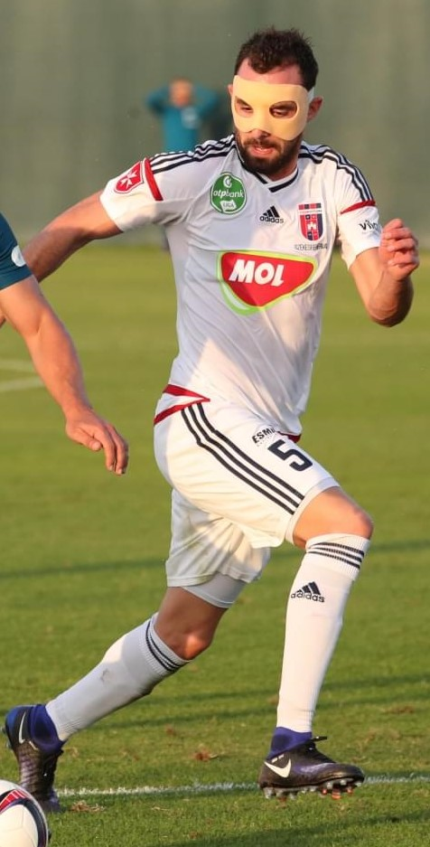 Attila Fiola